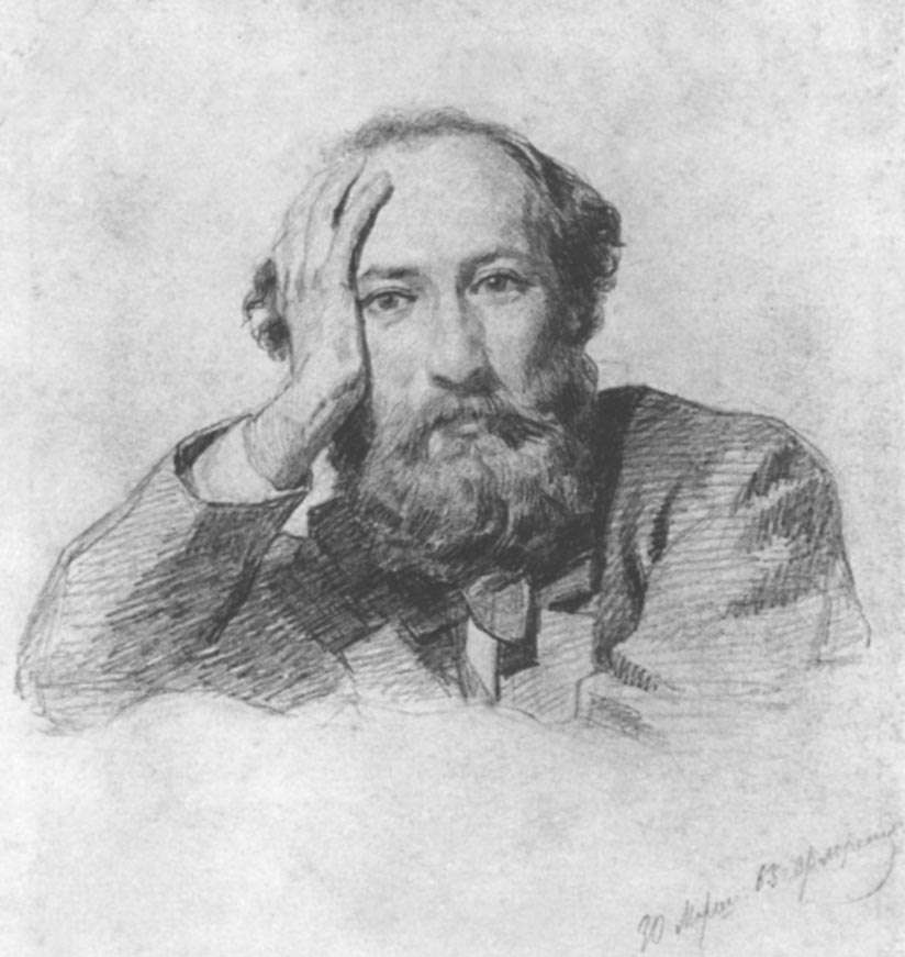 Portrait of Russian baritone opera singer Gennady Kondratiev (1835-1905)